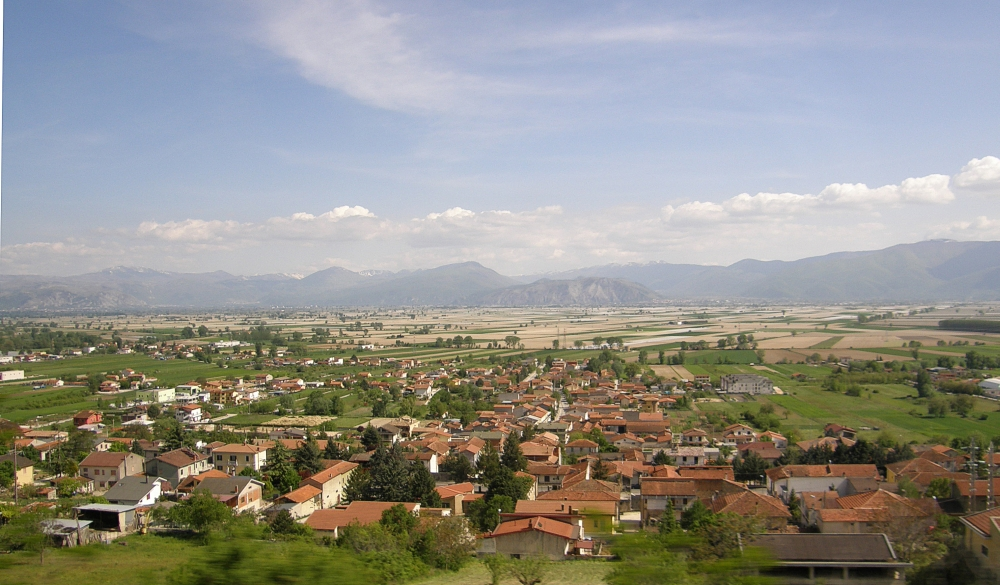 Fucine Plainnear the Autostrada 25